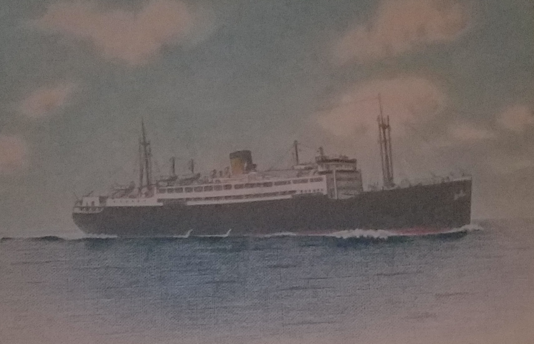 MV MANOORA 6 June 1937 Painting by E A Miller 1940